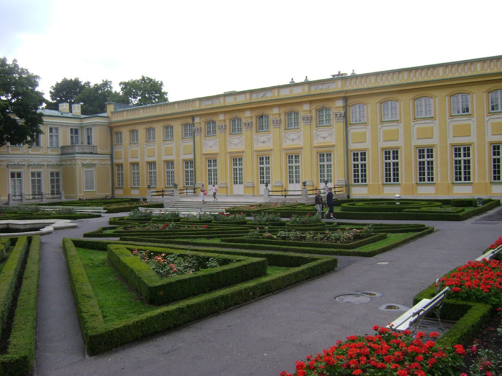 Poland. Warsaw. Wilanów Palace